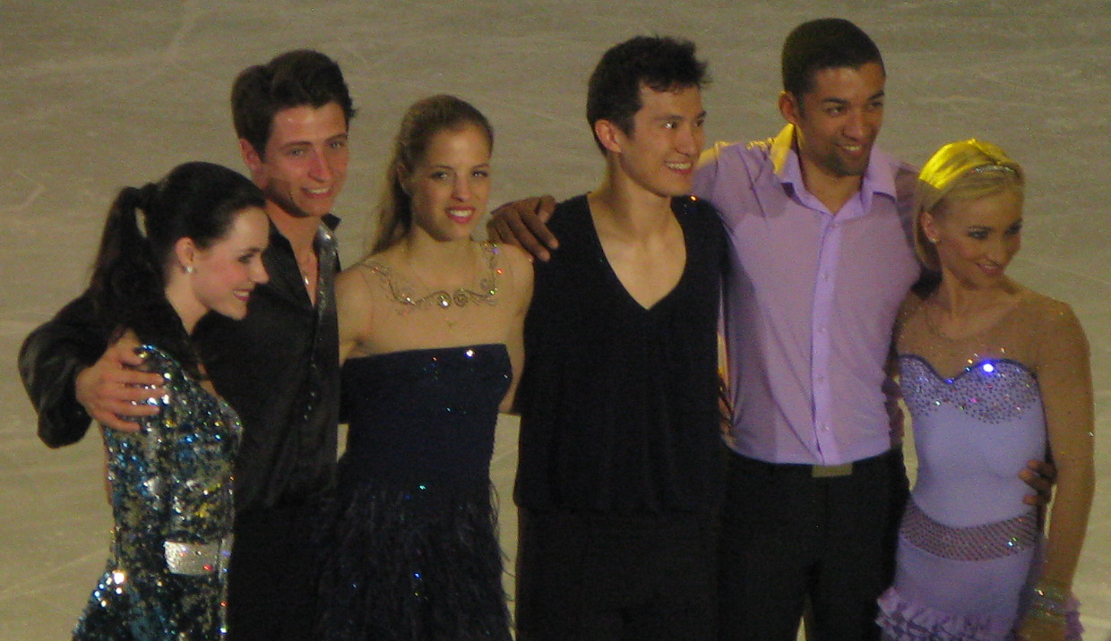 Gold medalists at 2012 World Figure Skating Championships in Nice : Tessa Virtue and Scott Moir, Carolina Kostner, Patrick Chan, Robin Szolkowy and Aliona Savchenko.